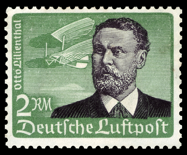 Series for Airmail (complete series 9 values with eagle like "537" in different colors plus one each of Lilienthal and Zeppelin) Ausgabepreis: 2 Reichsmark First Day of Issue / Erstausgabetag: 21. Januar 1934 Michel-Katalog-Nr: 538 (Deutsches Reich)